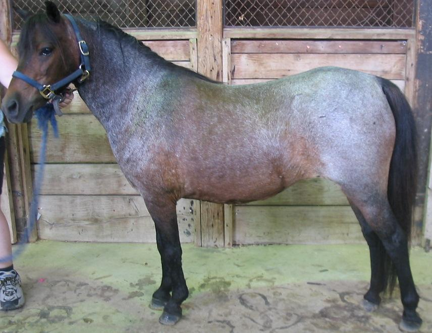 a bay roan American Shetland pony. registered name Sonora's Dollie Rose picture taken by Elizabeth M.E. Hall of Fire Song Ponies, iowa